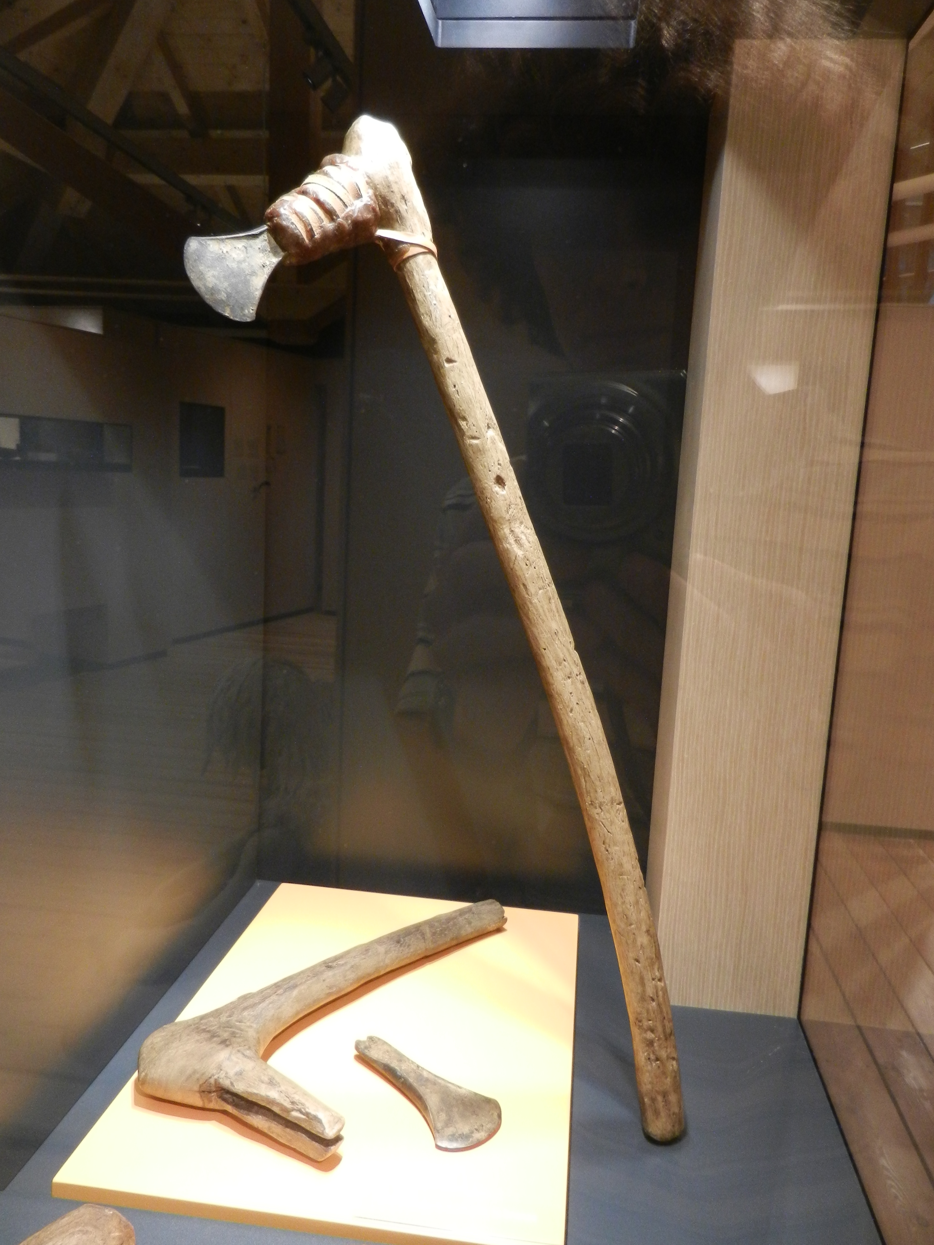 Two axes with wooden handle and metal blade.